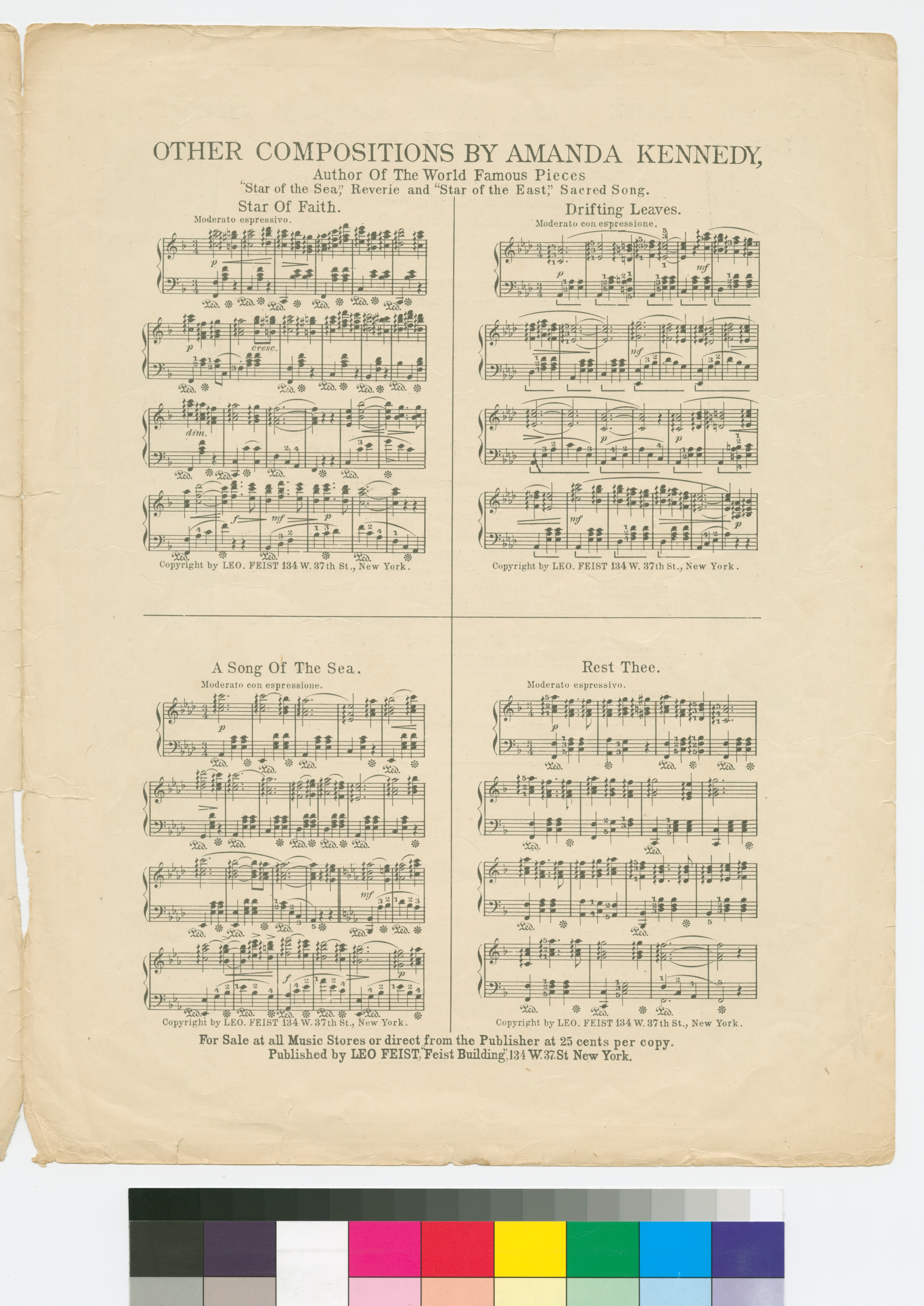 Caption title indicates the melody is from the song Star of the sea. Cover illustrates two five-pointed stars. On t.p.: The famous sacred song success.